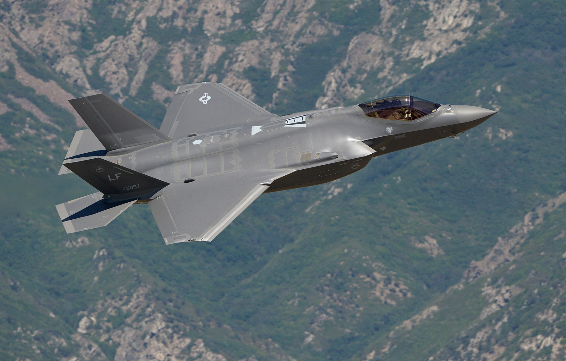 An F-35A Lightning II aircraft from Luke Air Force Base, Ariz., banks right past the control tower upon arriving at Hill Air Force Base, Utah, where it was seen on static display during 34th Fighter Squadron’s activation ceremony held July 17 at Hill Air Force Base. The 34th will be the first combat squadron to fly the Air Force’s newest fighter aircraft, the F-35A. The squadron has an extremely rich history. After many contributions in major U.S. conflicts, the 34th was relocated to Hill Air Force Base Dec. 8, 1975, where they became the first fighter squadron to receive the F-16 fighter aircraft. The squadron’s first F-35A will arrive in September. (U.S. Air Force photo by Alex R. Lloyd/Released)